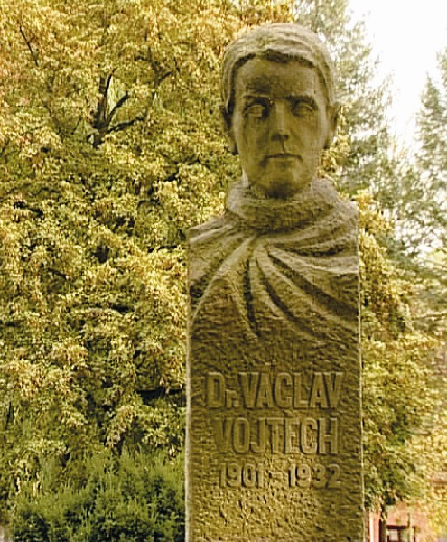 Václav Vojtěch memorial